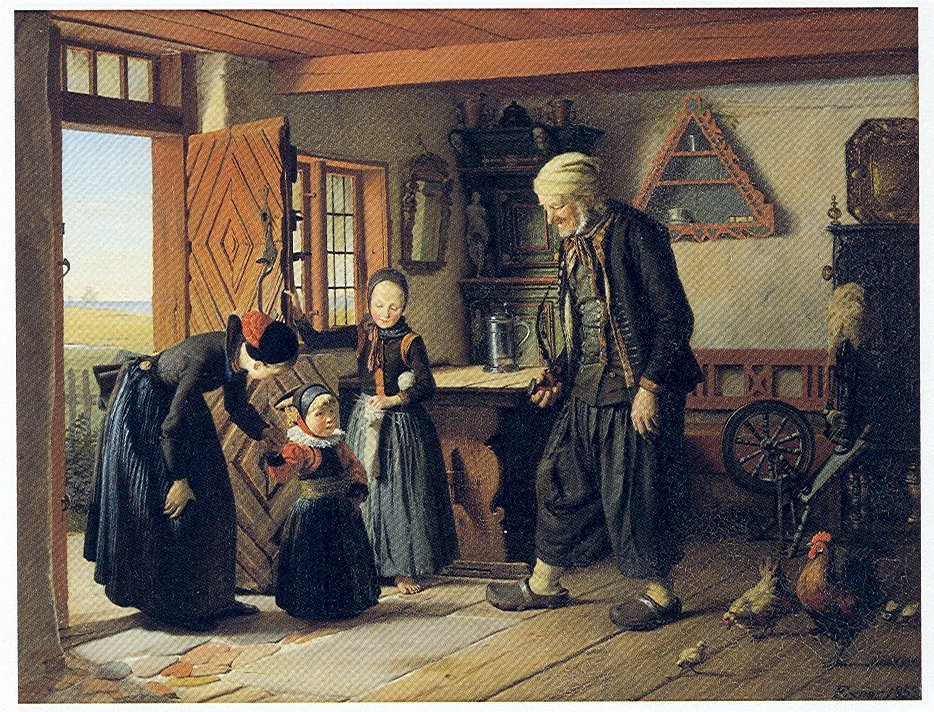 Visiting GrandfatherDansk: Besøget hos Bedstefader